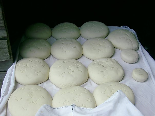 scds